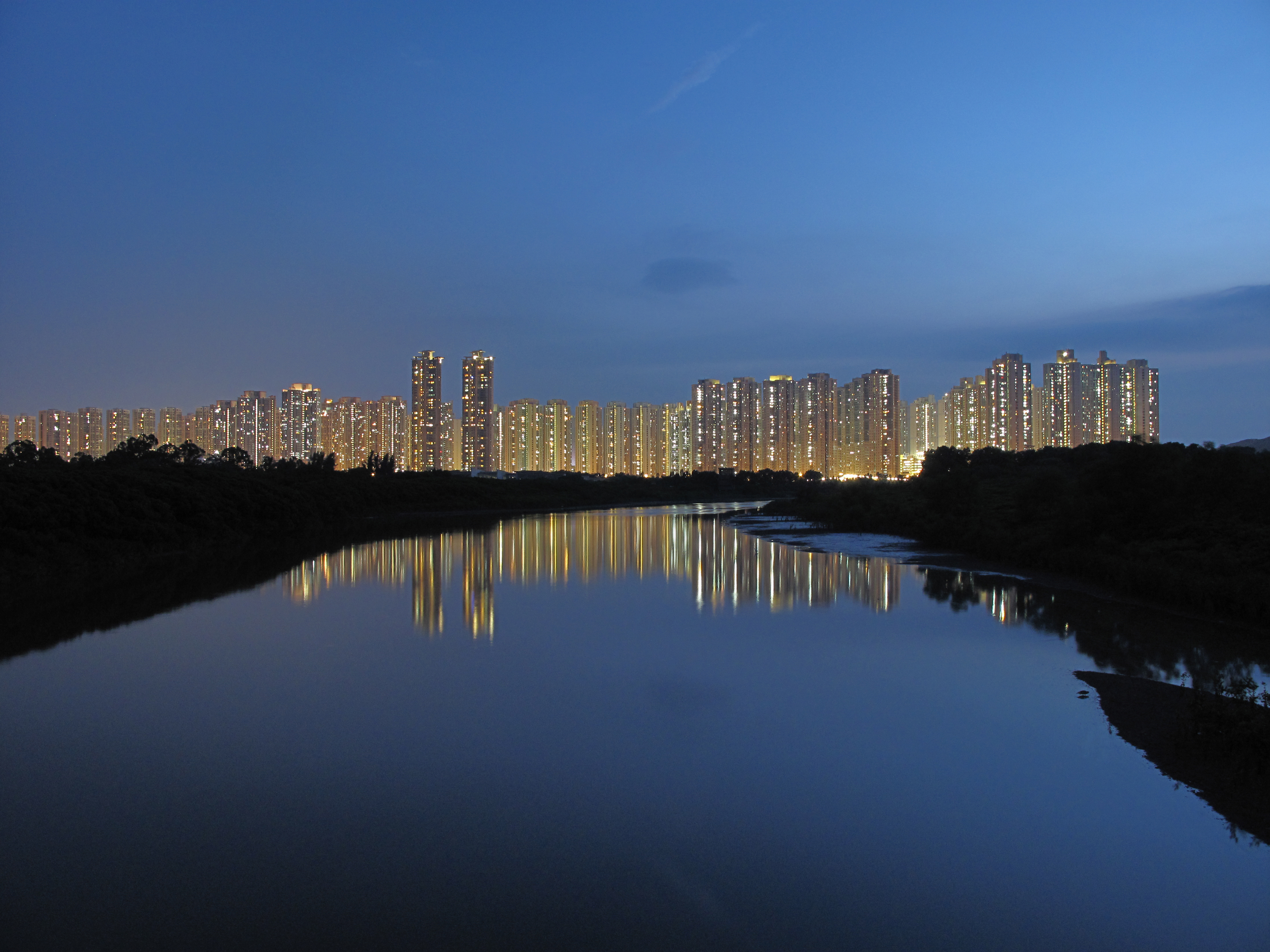 Tin Shui Wai